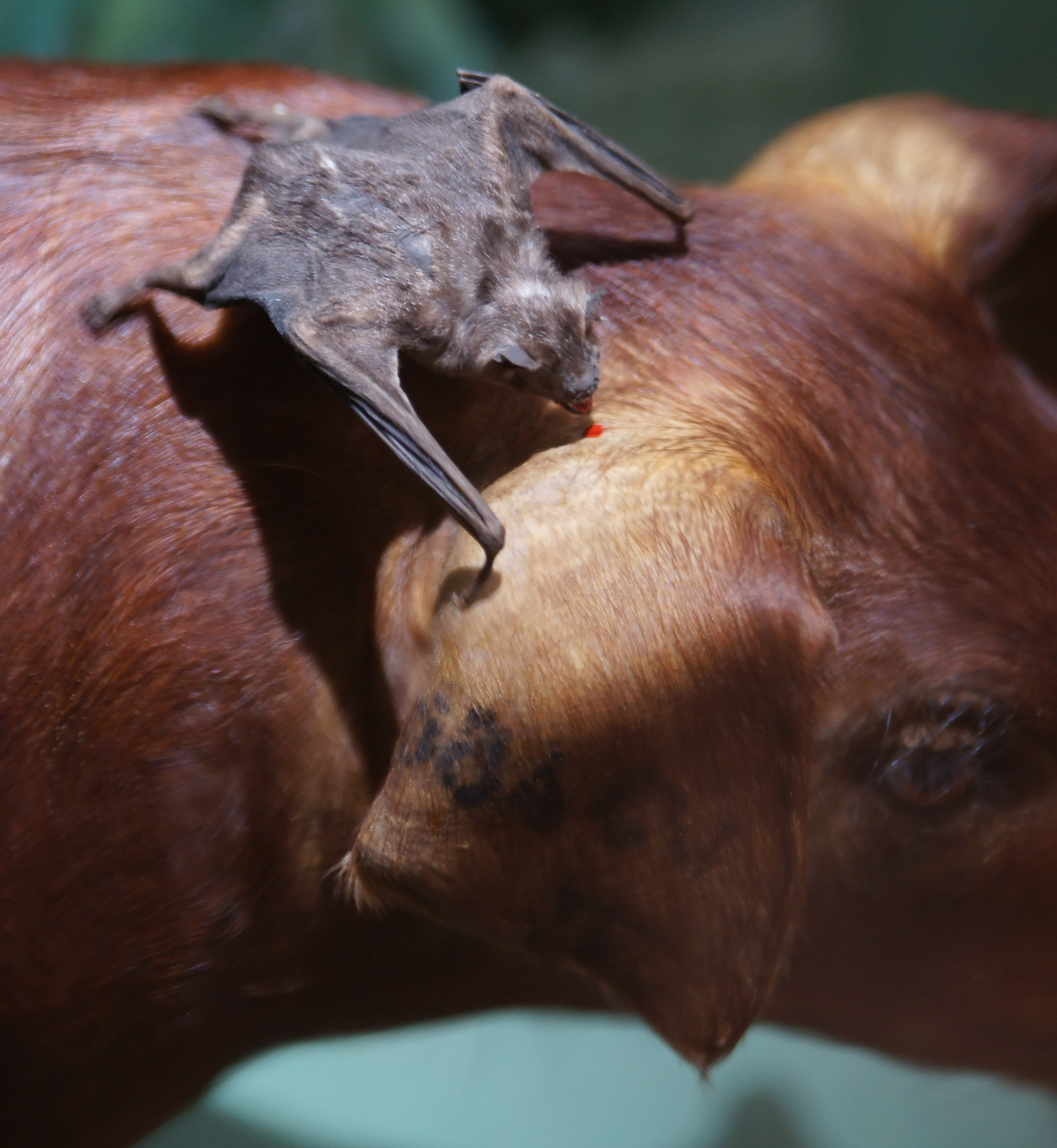 A Common Vampire Bat, Desmodus rotundus, feeding on an animal. Showcase of taxidermied animals, Natural History Museum, Vienna.